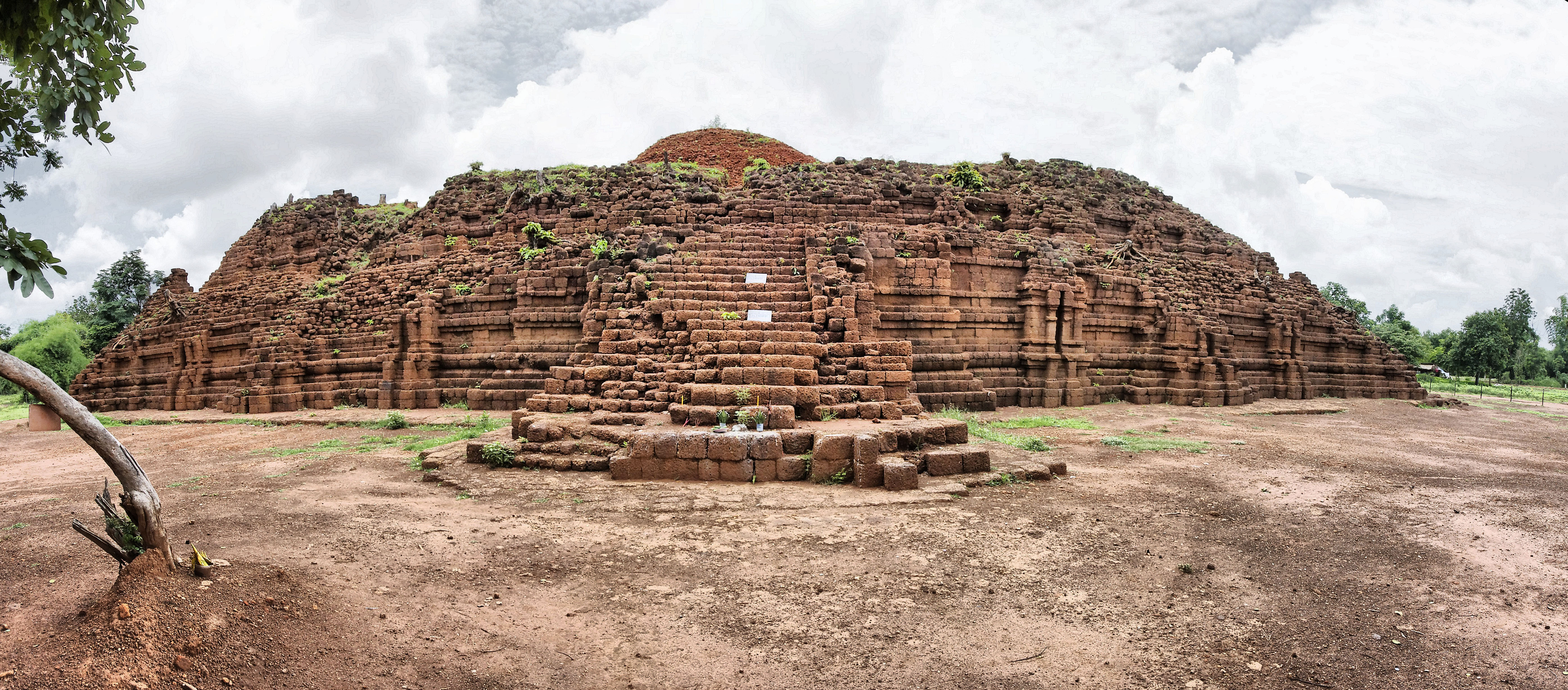 Khao Khlang Nak, Sithep, Thailand